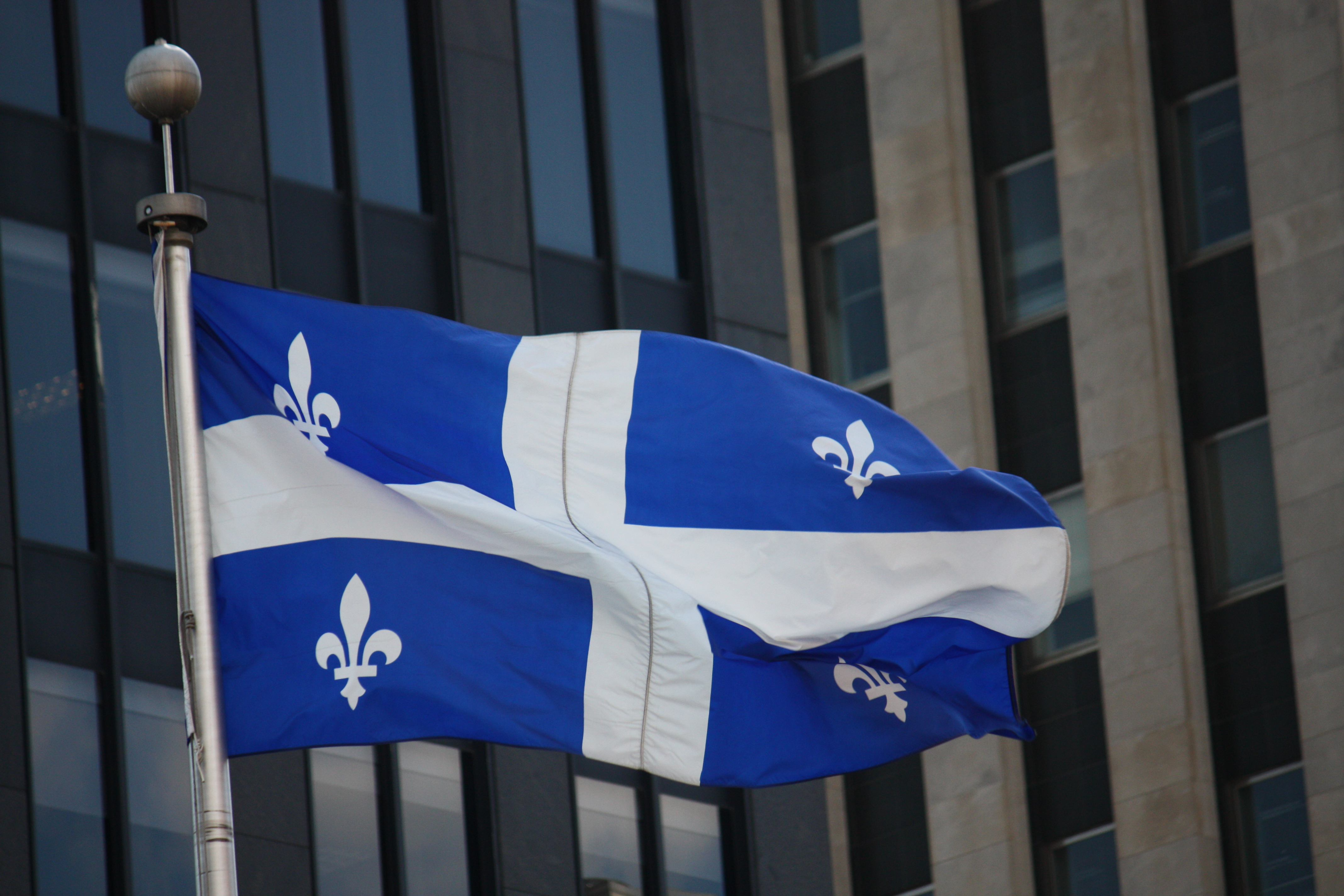 The flag of Québec, Canada, flying in downtown Montréal.